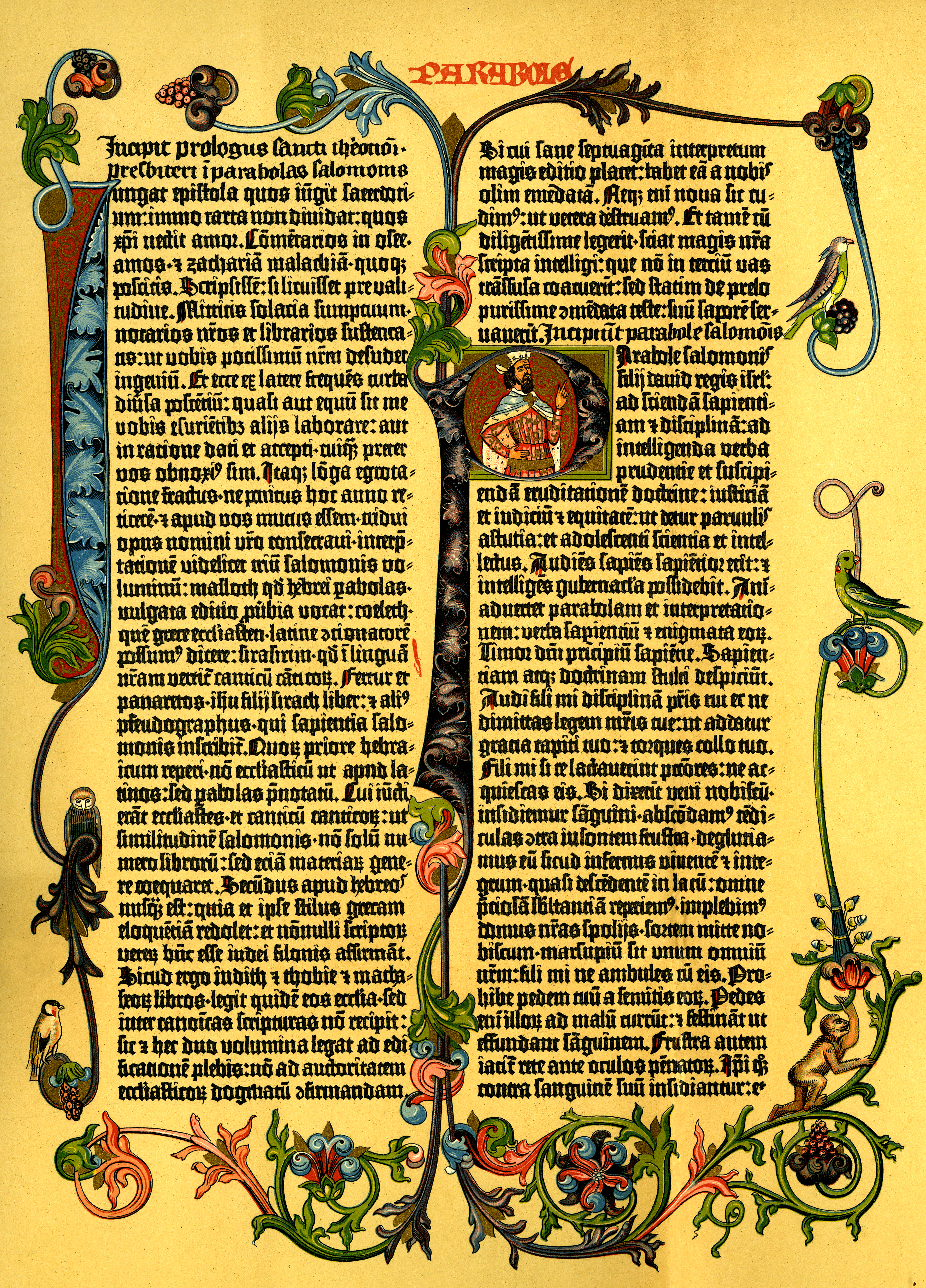 Commentary on Solomon's from Gutenberg's Latin bible, circa 1453 -1456.